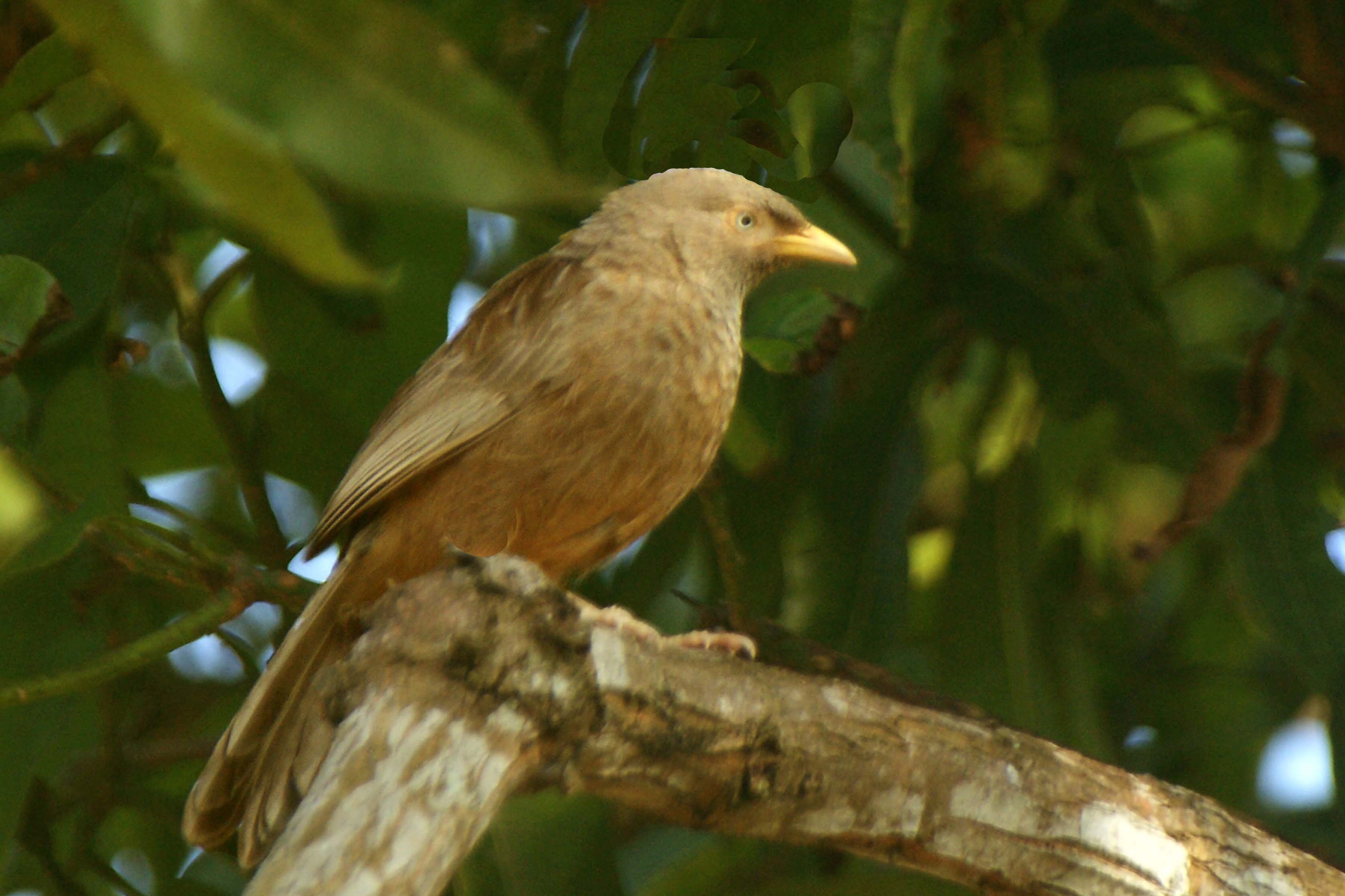 Yellow-billed Babbler (Turdoides affinis)